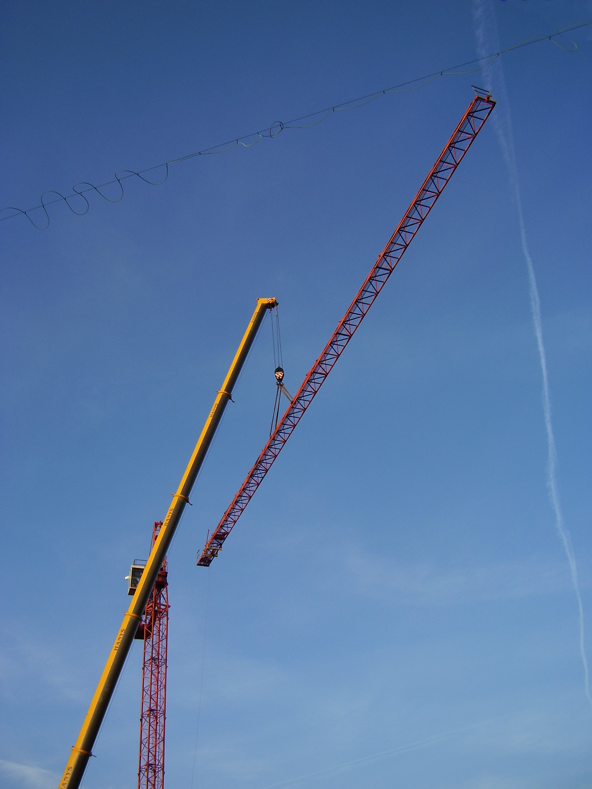 Building the crane with mobile crane